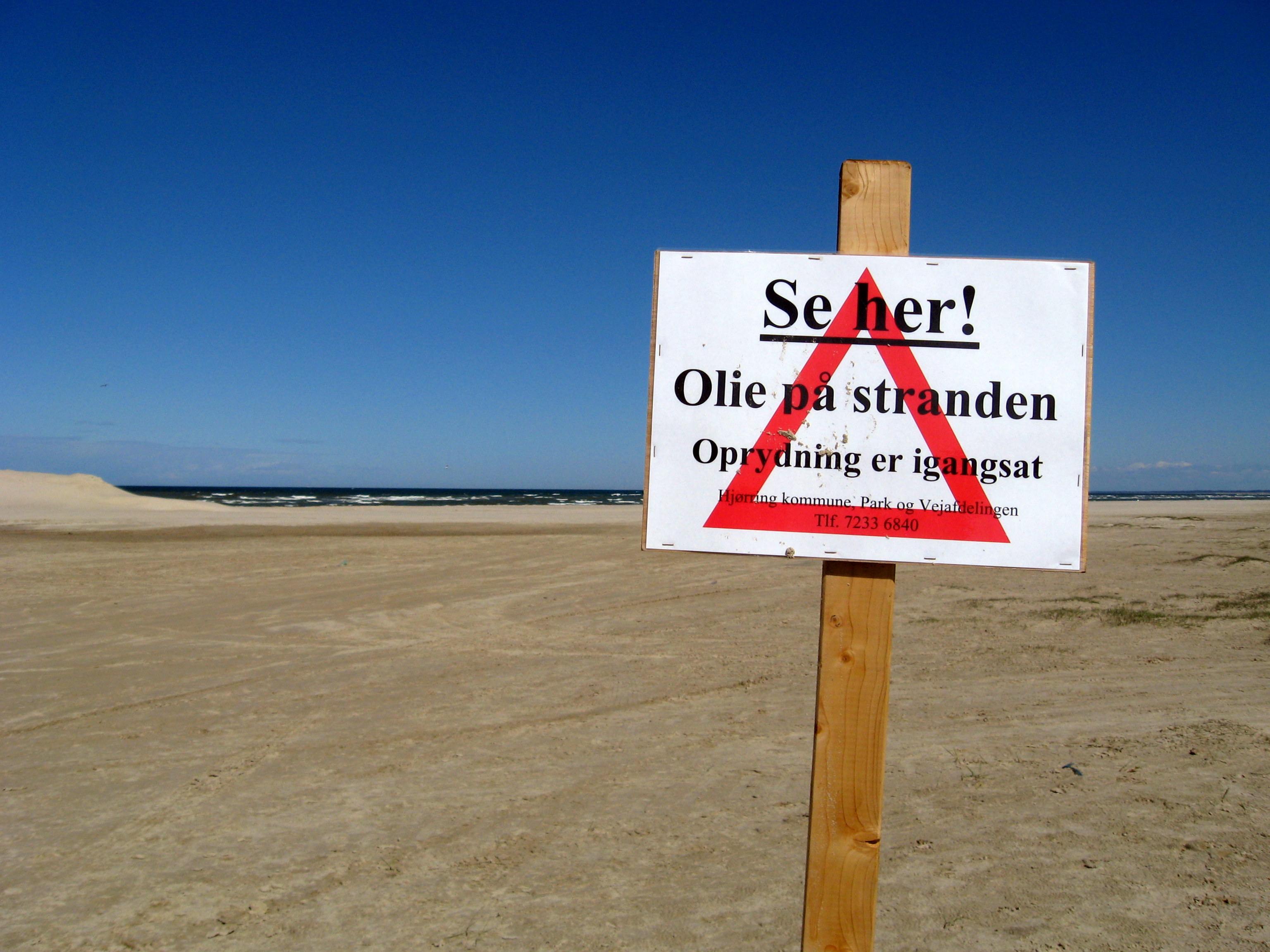 An oil-contaminated beach in Denmark